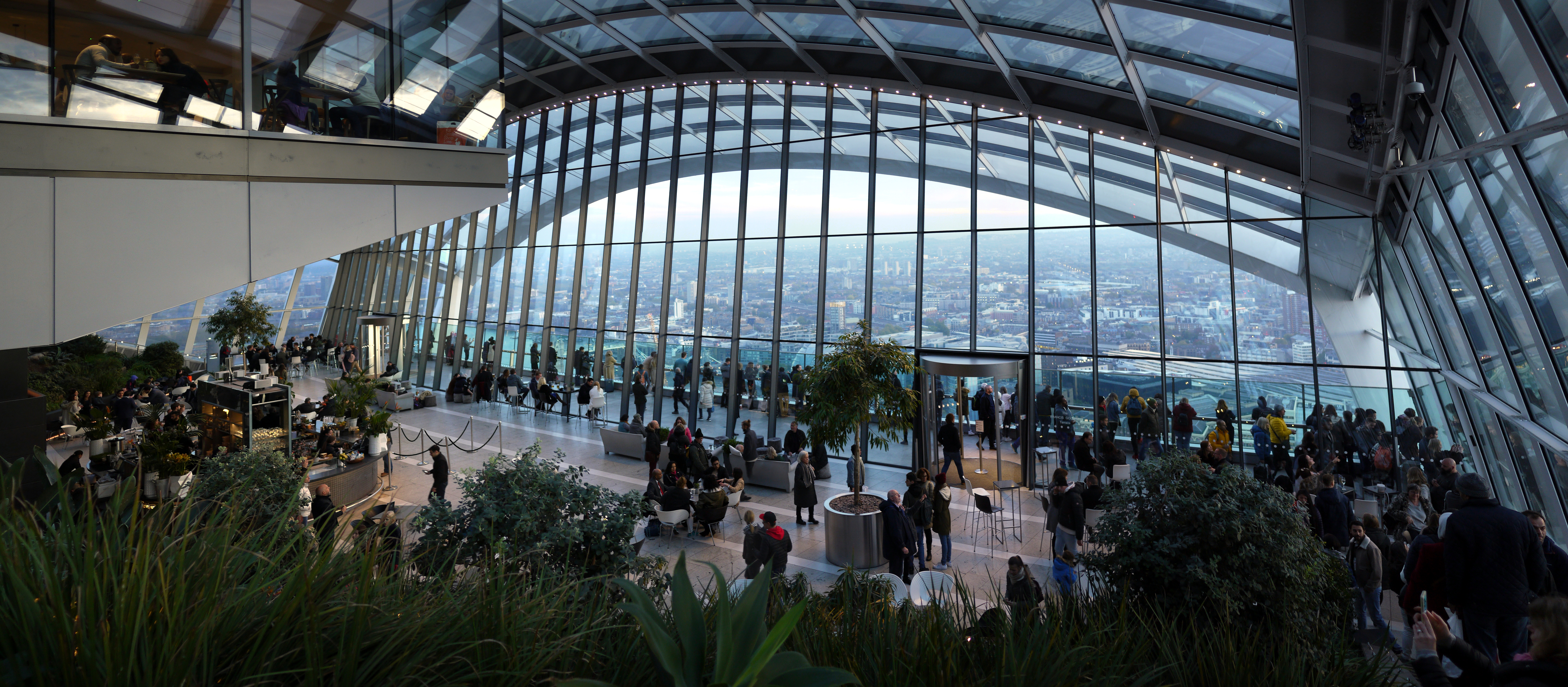 Sky Garden inside